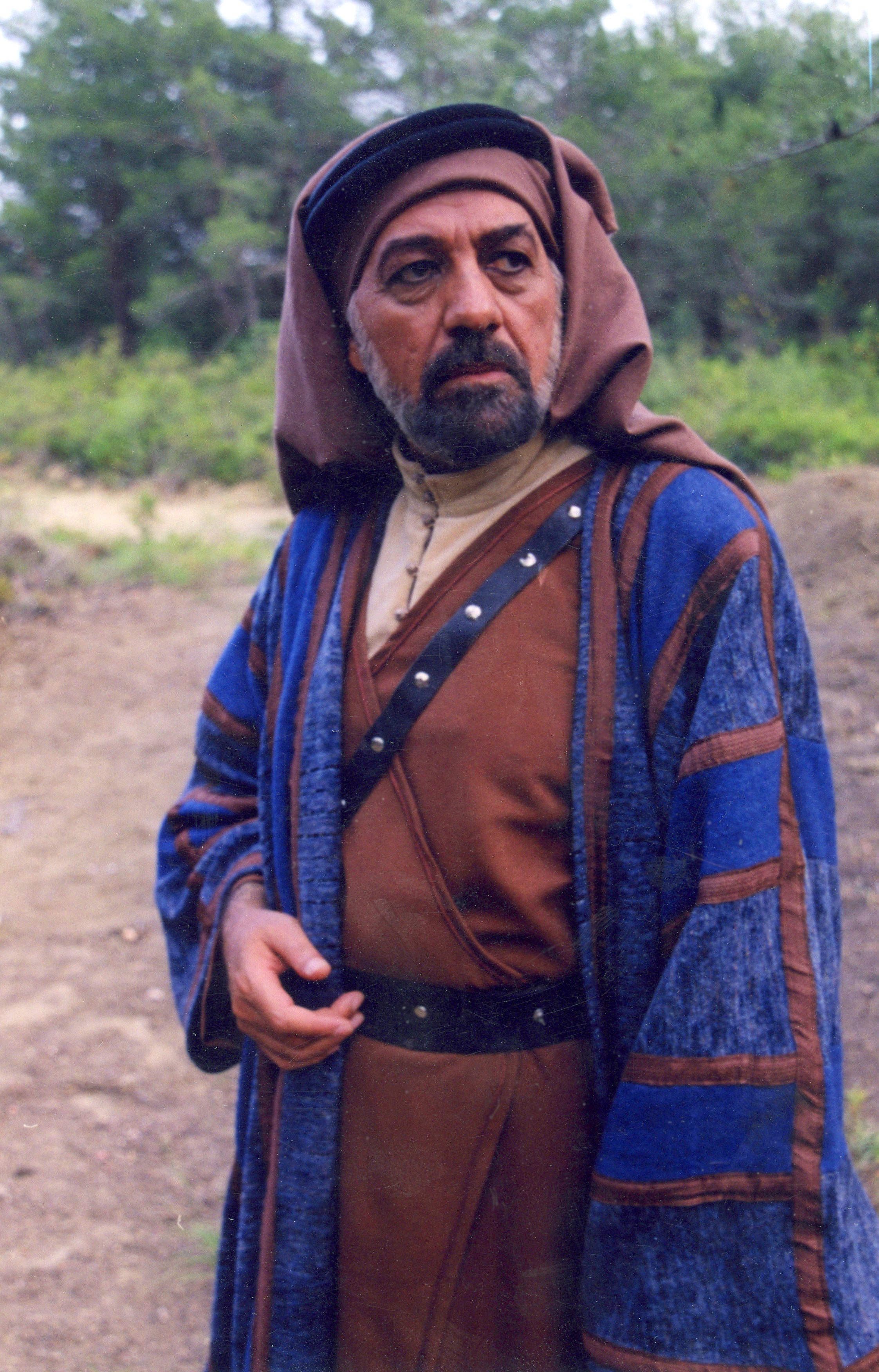 Jamil Awad - Jordanian Actor in the Drama series - The Last Cavalier